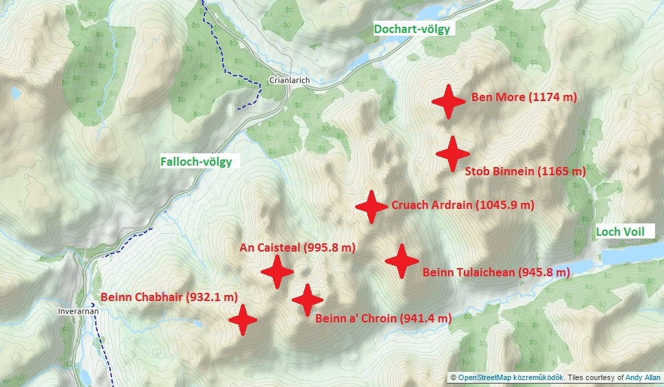 The summits of the so-called Crianlarich Munros.